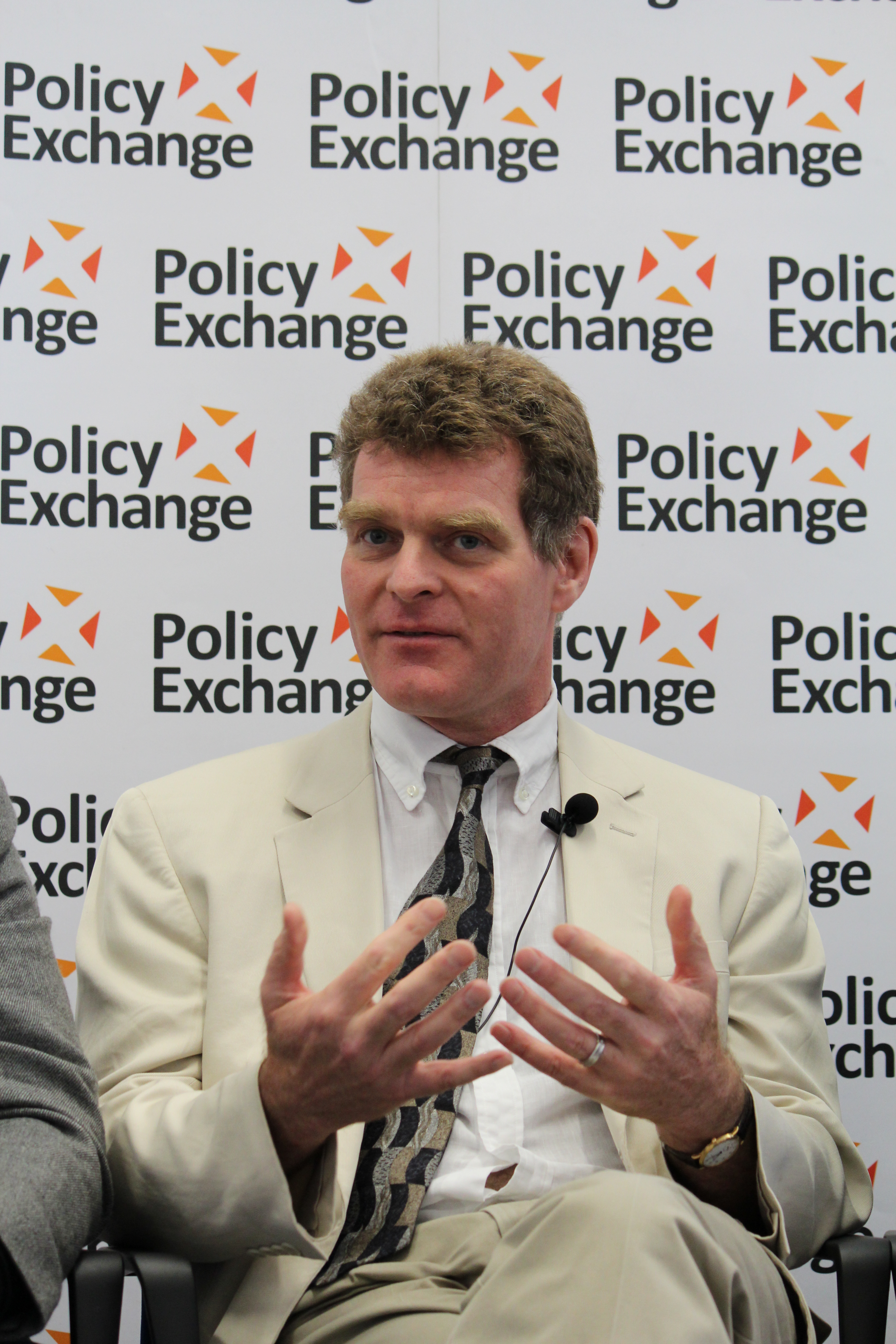 A video of this event will be available shortly at Professor Sir Allan Bradley, Founder & Chief Scientific Officer at the launch of the Shakespeare Review